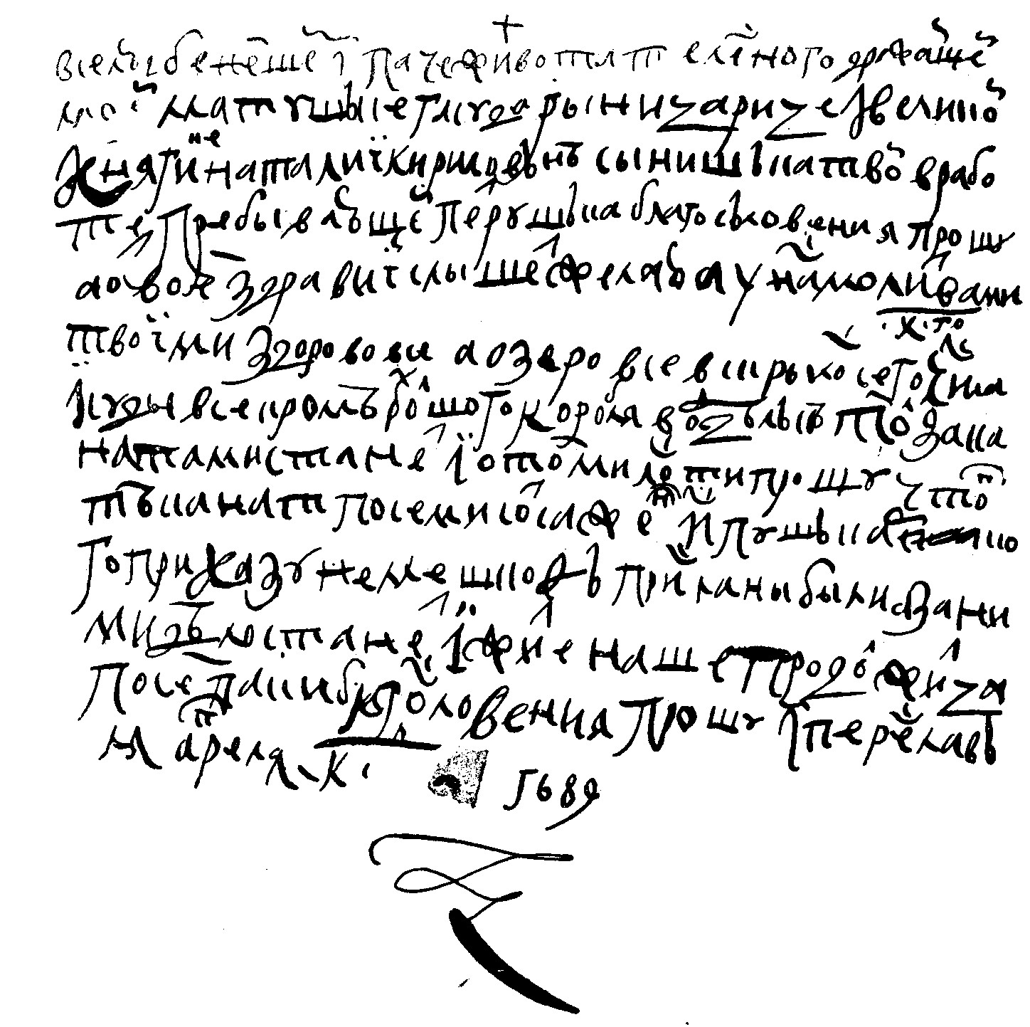 Letter by Tsar Peter I. to his mother Natalia Kirillovna in April 1689. Still, the script style resembles very much the Greek uncial.